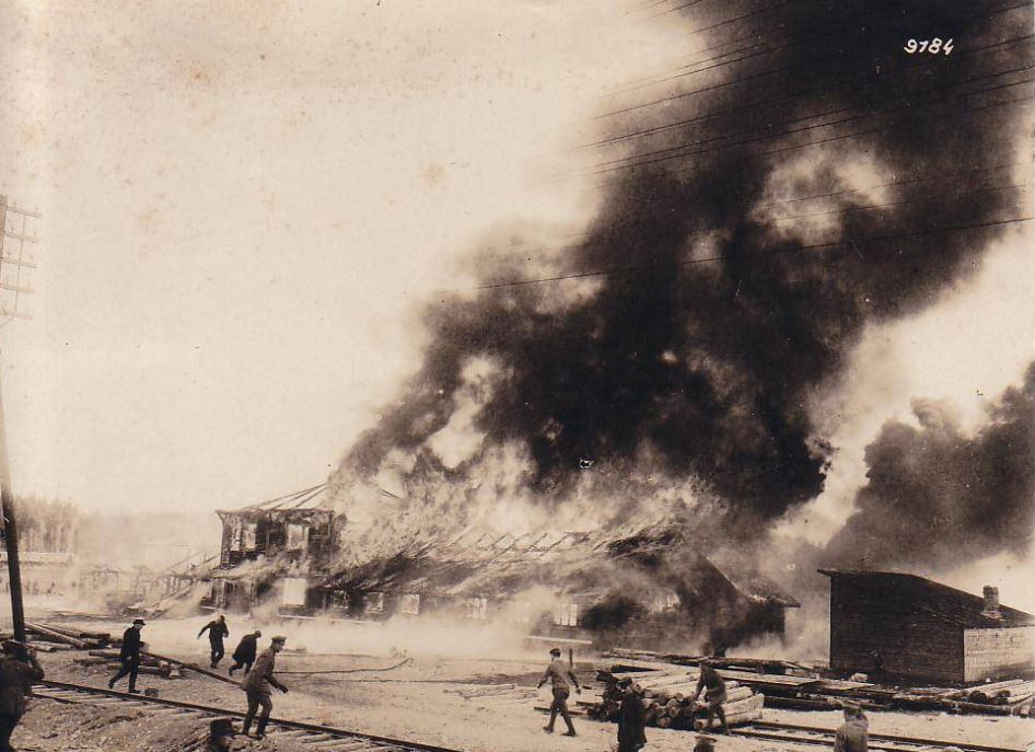 1918 Finnish Civil War: Riihimäki railway station after the blast of Red Guard ammunition wagon.